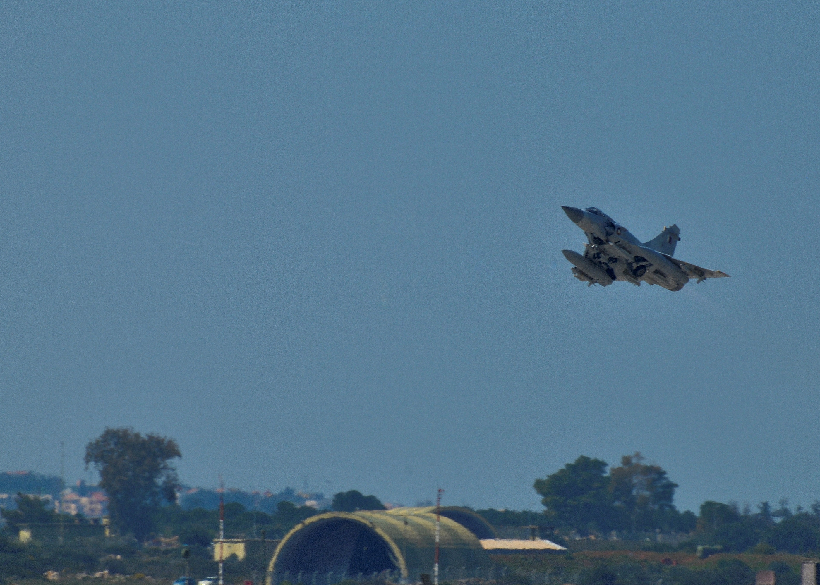 Souda Bay, Greece. A Qatar Emiri Air Force Dassault Mirage 2000-5 fighter jet takes off as part of a Joint Task Force Odyssey Dawn mission. Joint Task Force Odyssey Dawn is the U.S. Africa Command task force established to provide operational and tactical command and control of U.S. military forces supporting the international response to the unrest in Libya and enforcement of United Nations Security Council Resolution (UNSCR) 1973. UNSCR 1973 authorizes all necessary measures to protect civilians in Libya under threat of attack by Qadhafi regime forces. JTF Odyssey Dawn is commanded by U.S. Navy Adm. Samuel J. Locklear, III. (U.S. Navy Photo by Paul Farley) [20110325190239 ]